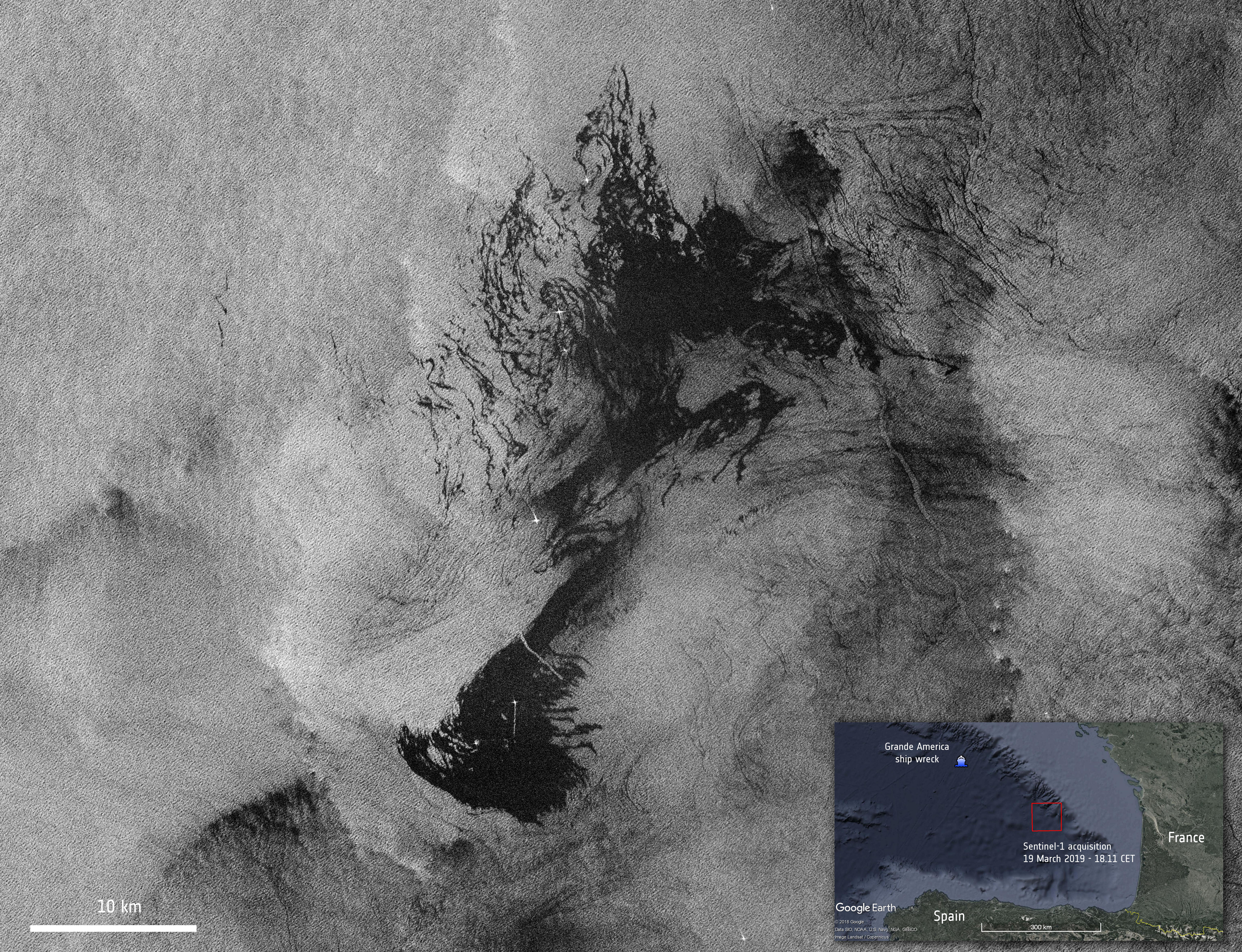 Captured just yesterday, 19 March, at 17:11 GMT (18:11 CET) by the Copernicus Sentinel-1 mission, this image shows the oil spill from theGrande Americavessel. The Italian container ship, carrying 2200 tonnes of heavy fuel, caught fire and sank in the Atlantic, about 300 km off the French coast on 12 March. Copernicus Sentinel-1 acquired this radar image of the oil slick, the large, dark patch visible in the centre of the image, stretching about 50 km. Marine vessels are identifiable as smaller white points, which could be those assisting in the clean-up process. Oil is still emerging from the ship now lying at a depth of around 4500 metres. French authorities are trying to reduce the impact of pollution along the coast. Sentinel-1 is a two-satellite constellation built for the European Commission’s Copernicus environmental monitoring programme. The identical satellites each carry an advanced radar instrument that can ‘see’ through the dark and through clouds. Satellite radar is particularly useful for monitoring the progression of oil spills because the presence of oil on the sea surface dampens down wave motion. Since radar basically measures surface texture, oil slicks show up well – as black smears on a grey background.